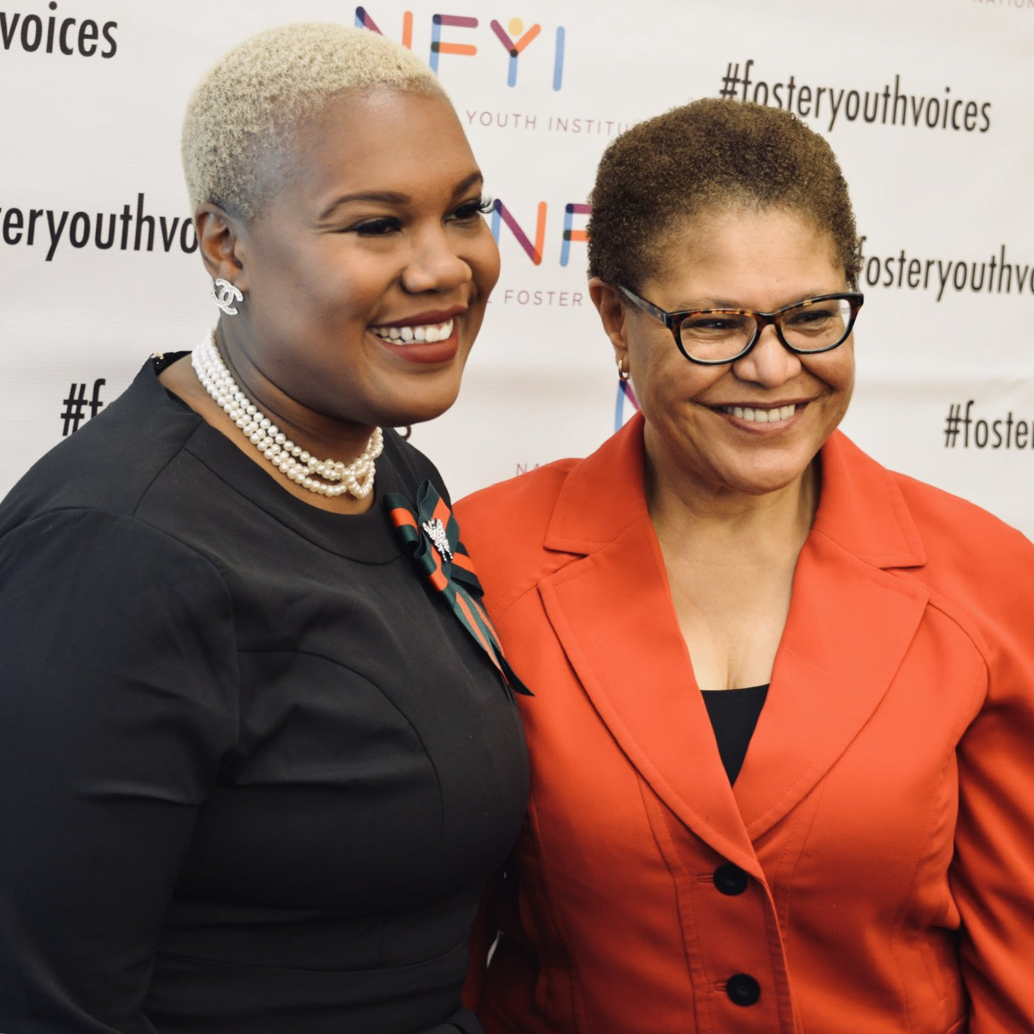 Erica is the only elected official in the country who is a foster youth alumni. Last year, I invited her to DC to speak to the more than 100 foster youth shadowing their Member of Congress. Her message to them: YOU BELONG. My message to her today: YOU BELONG. IStandWithErica